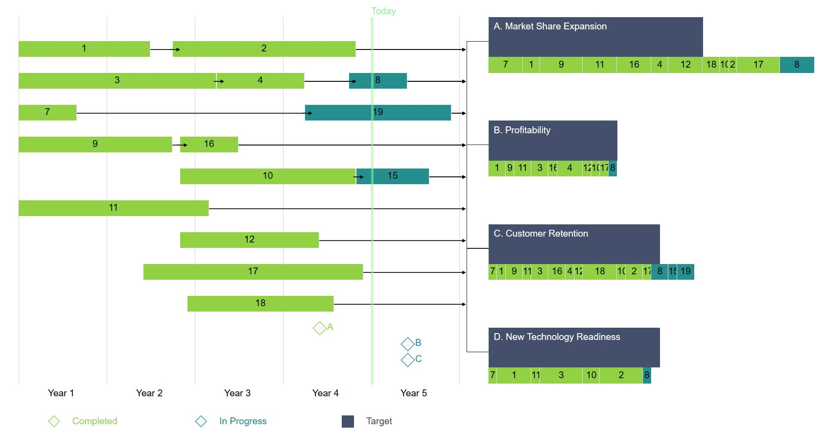 The project portfolio roadmap details the interdependence of the planned components, the time of the execution, their contribution to the four strategic goals of an organization, and the moment when the objectives are met. This is an example of the portfolio roadmap of the Strategic Management simulation SimulTrain+.